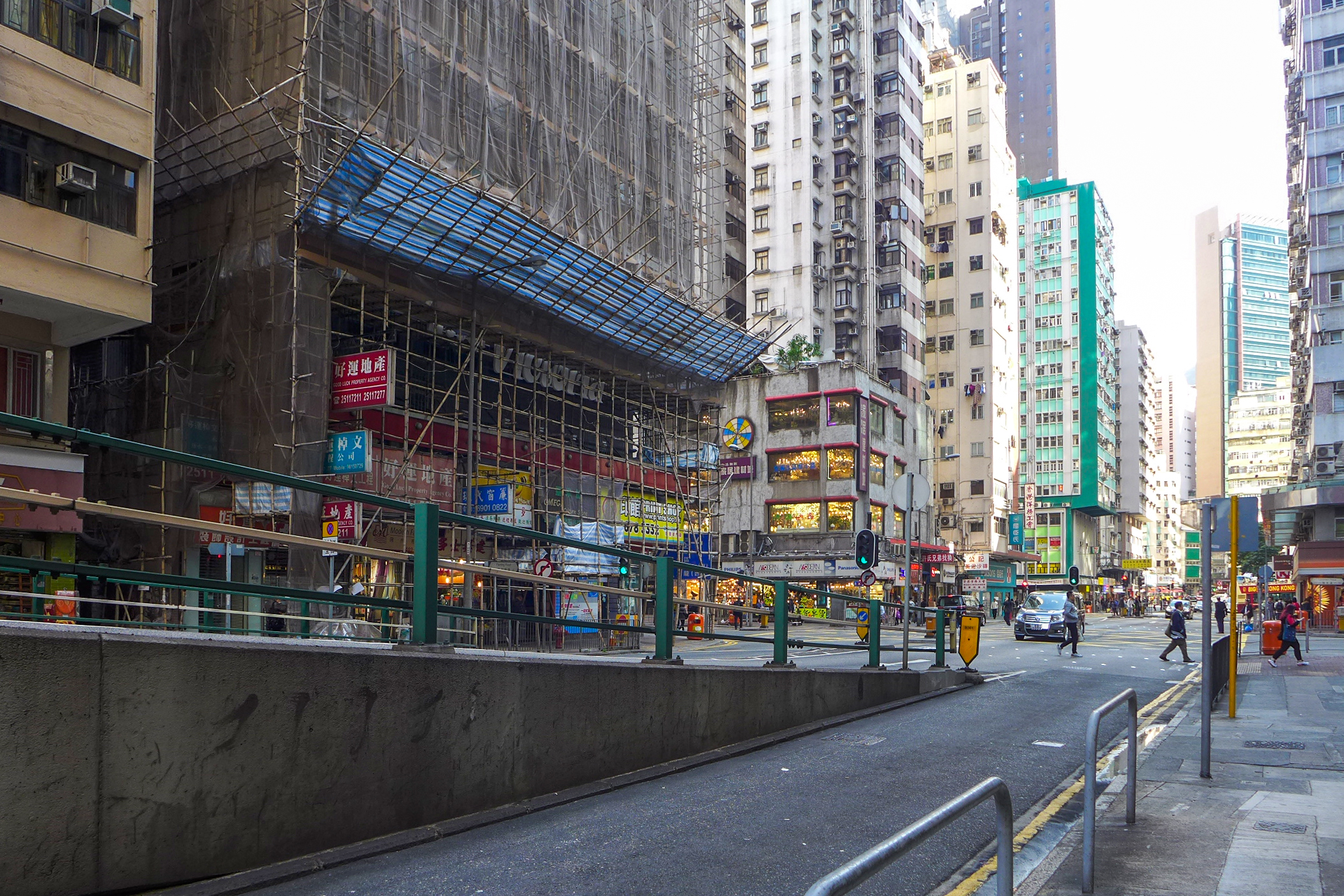 Fleming Road near Jaffe Road